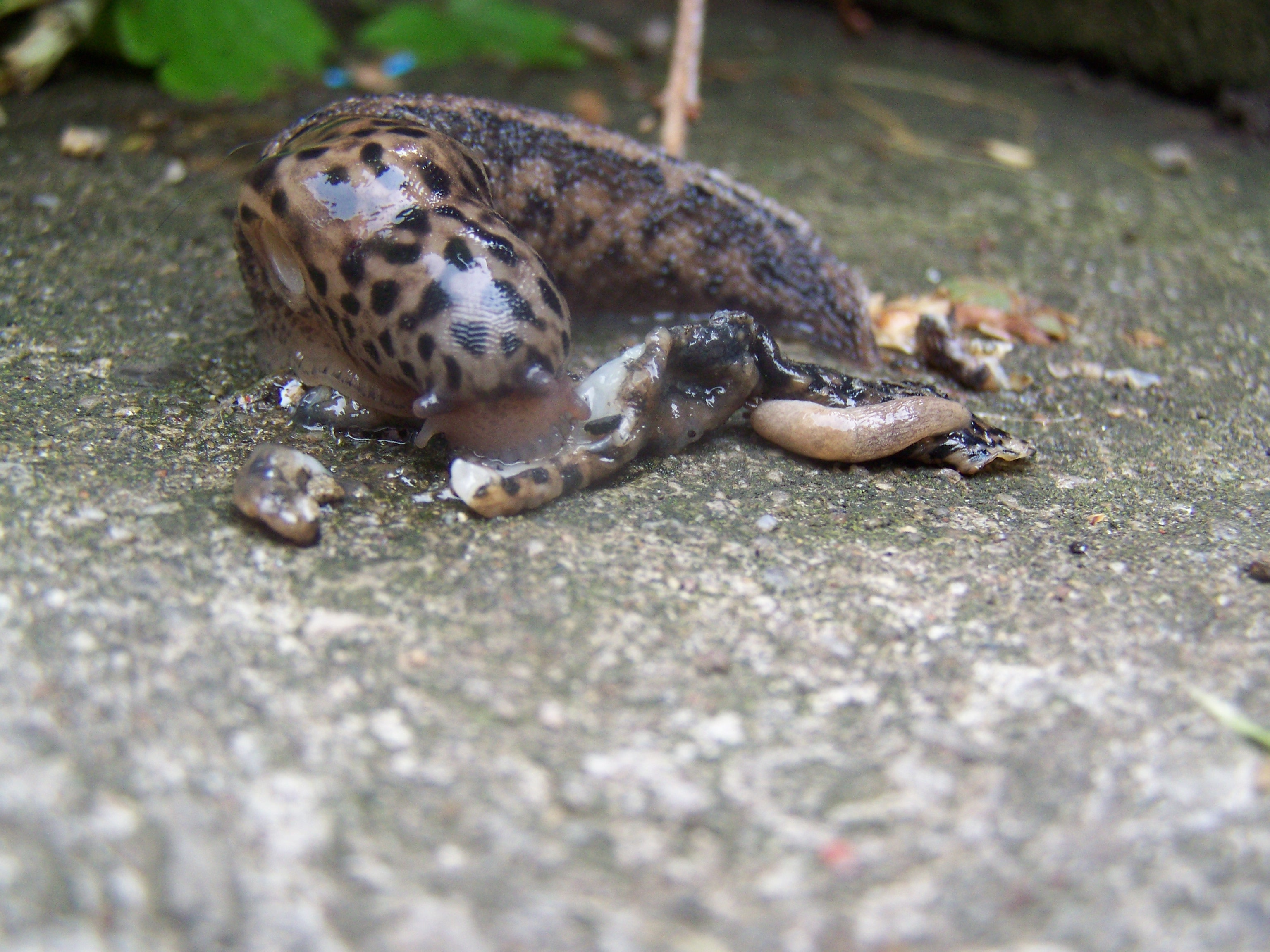 Limax maximus feeding on what looked like another slug. It also looks like a smaller yellow slug is also joining in.